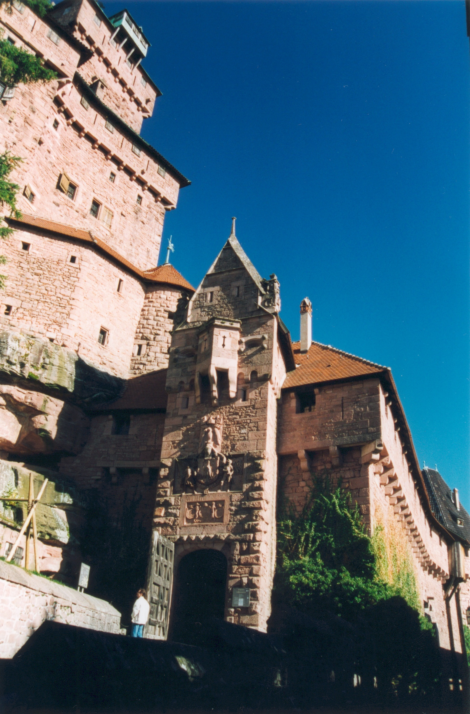 Haut-Kœnigsbourg castle, Alsace, France